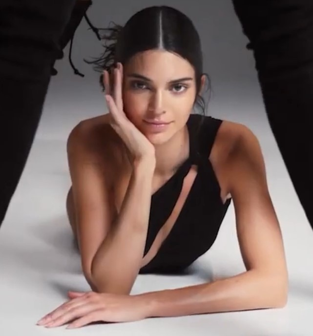 Stuart Weitzman Fall 2019 Campaign Starring Kendall Jenner shot at LightSpace Studios Los Angeles